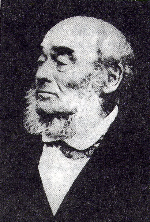 Vaclav Babinsky, historical photograph